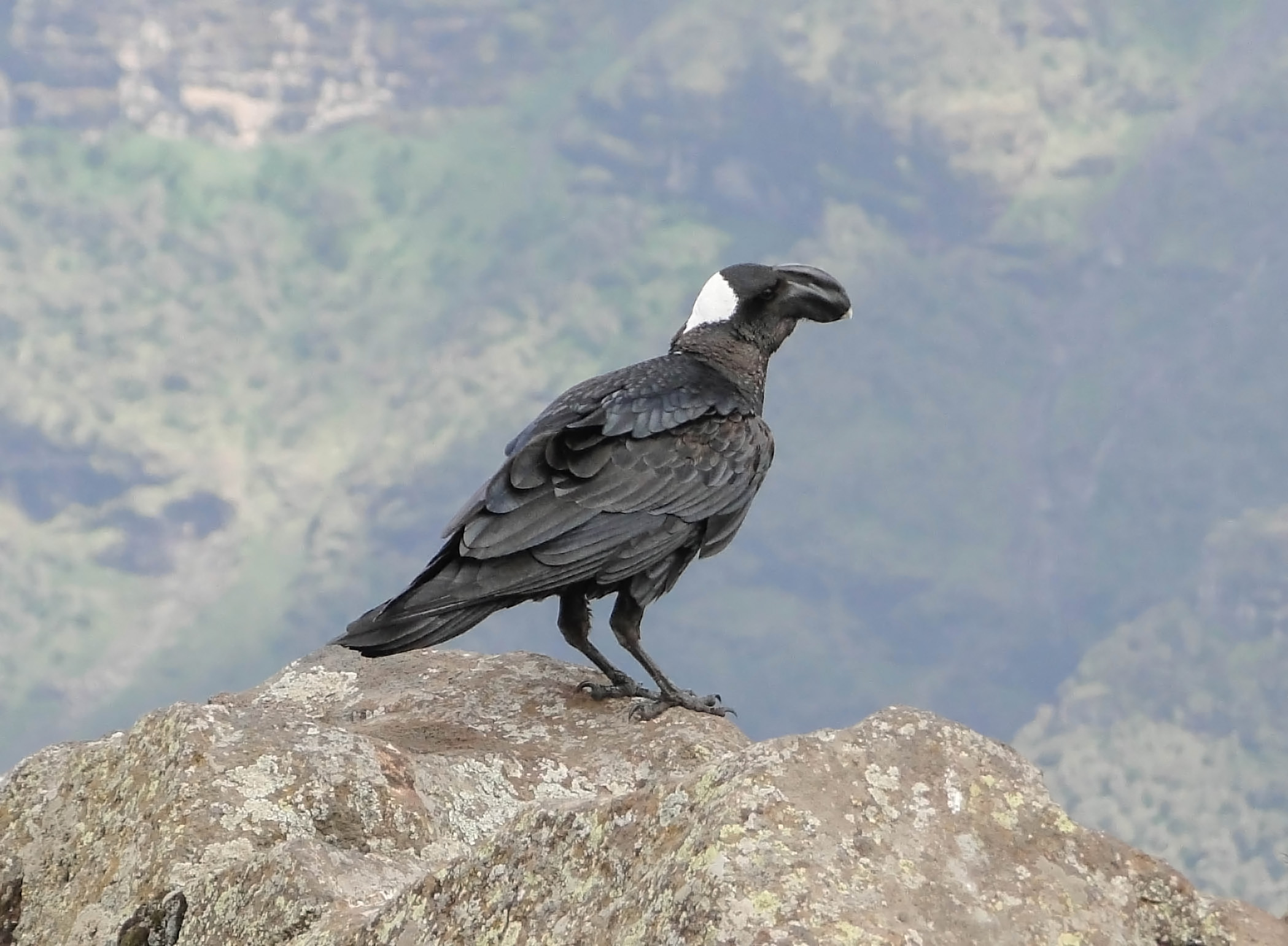 A Thick-billed Raven (corvus crassirostris) in the Simien Mountains National Park, Ethiopia